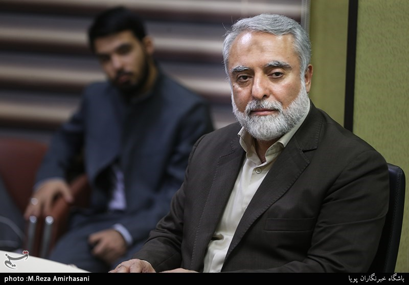 Disclosure of the Book of Curses and Missions to the Hadith of Ghadir with the Presence of Ayatollah Saeed Shah Abadi, Director of the Ghadirology Institute, Mohammad Hussein Rajabi Dawani, faculty member of Imam Hussein University and Hojatoleslam Majid Reza fouladi,Director General of Approximation of Religions Publications